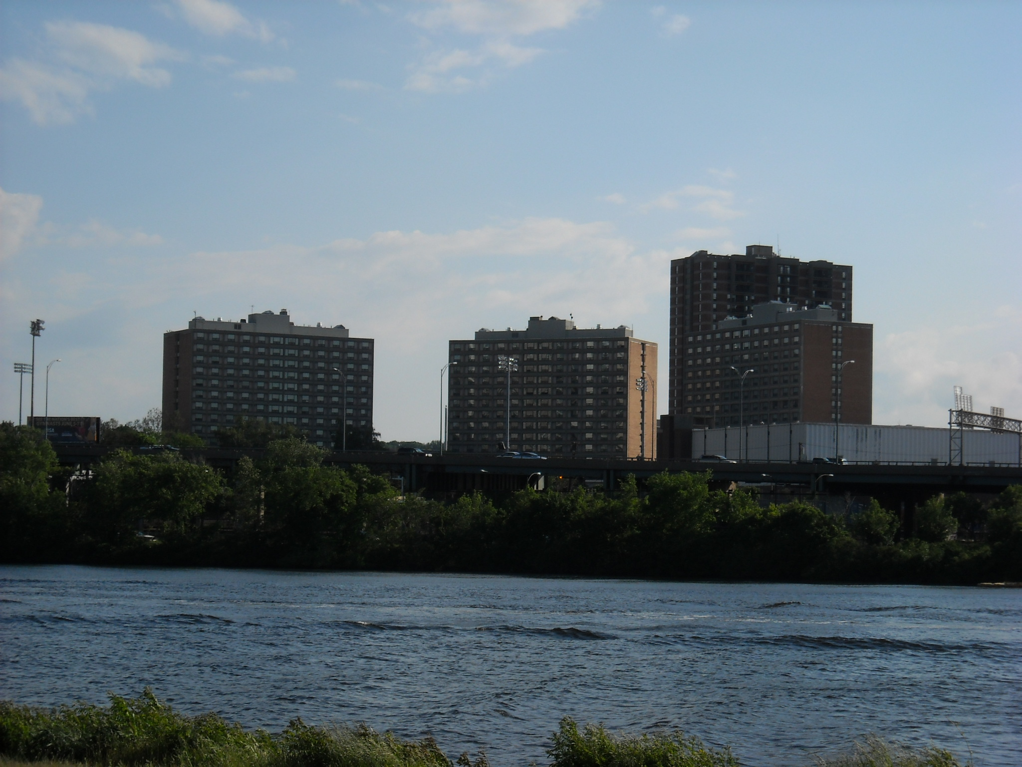 Claflin, Sleeper and Rich halls of West Campus seen from across the Charles River in Cambridge.